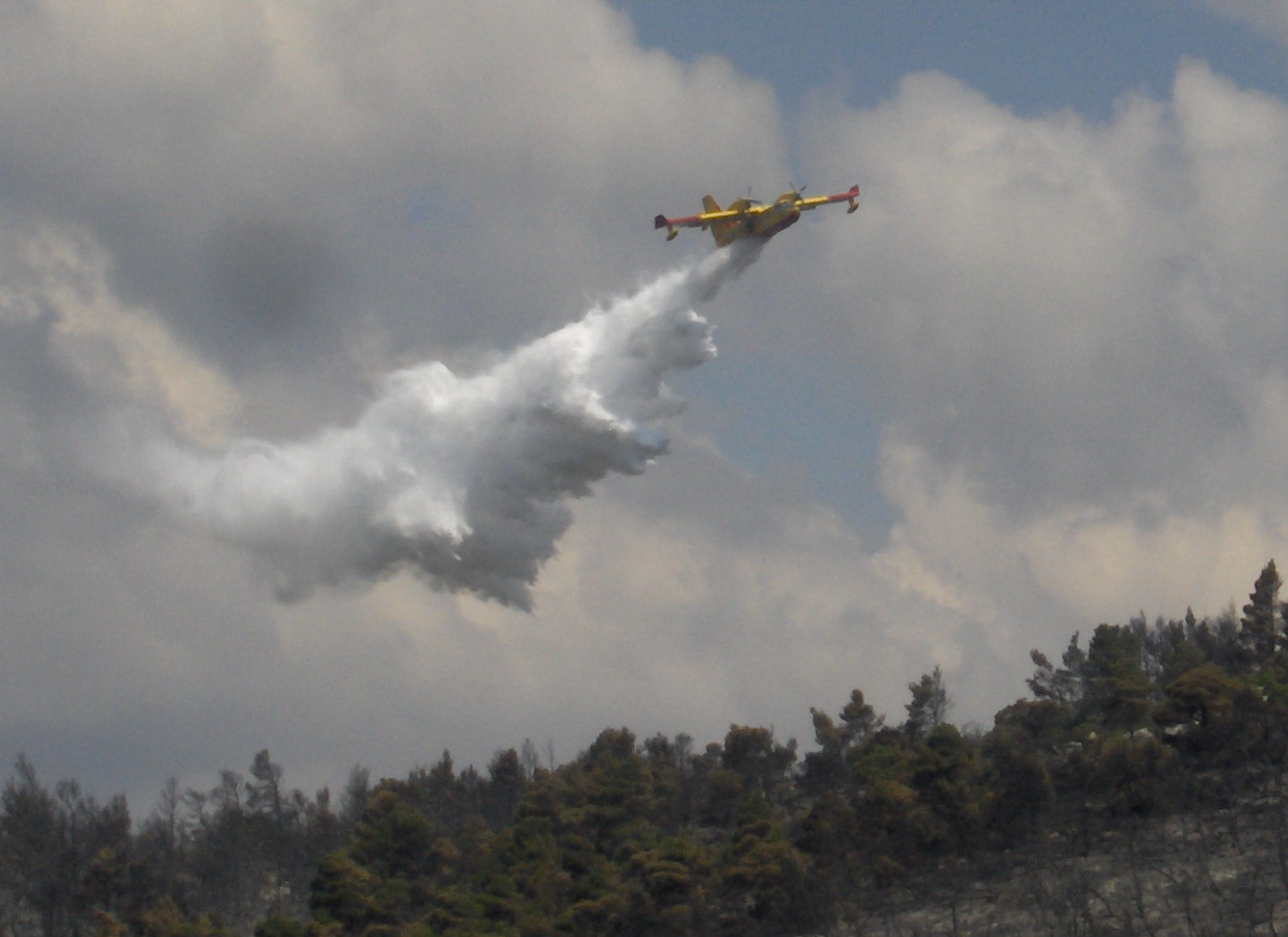 An Italian or Spanish Canadair CL-415. Photo from 3rd and 4th days of the fire in Parnitha, Greece.